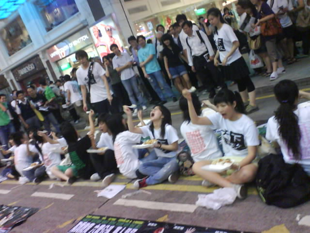 Template:Zh-hnat